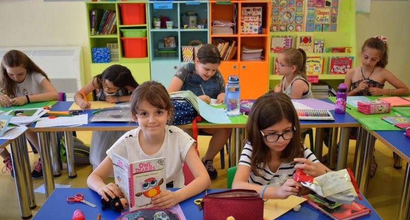 NOVA International Schools Elementary School